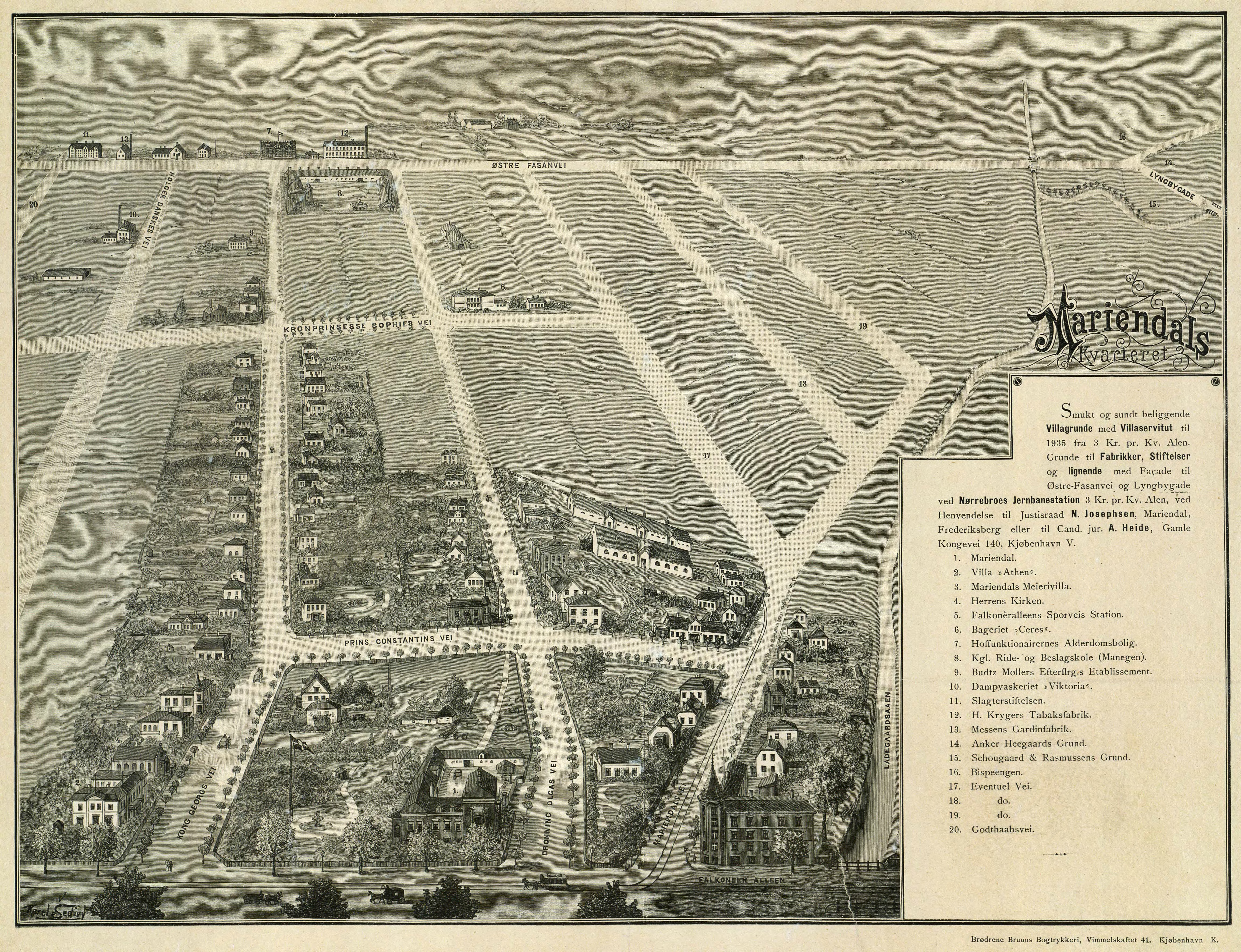 The Mariendal district. Panorama from 1890.